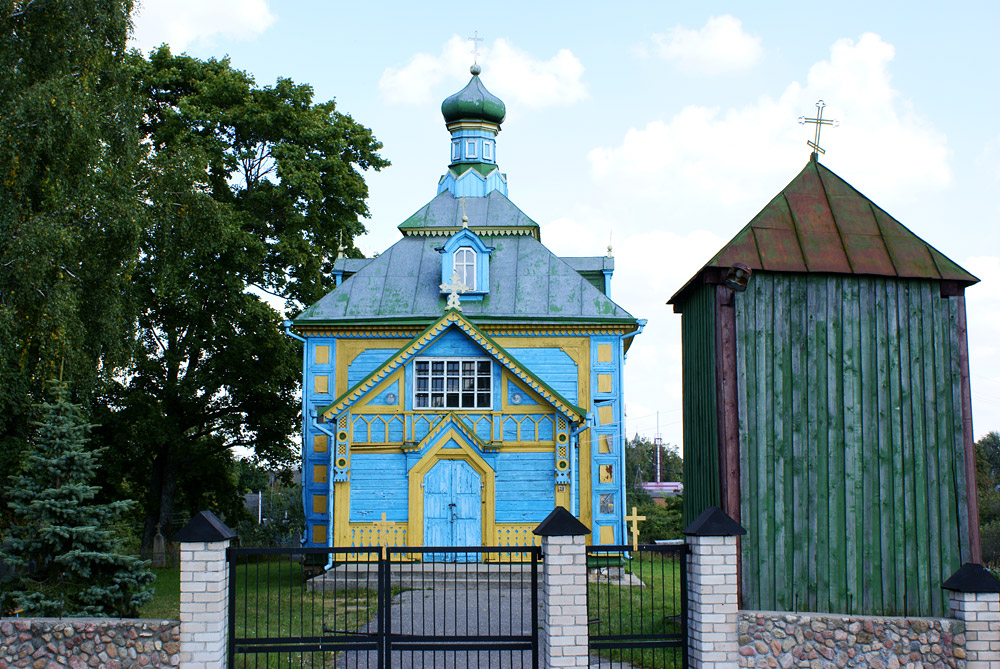 Church of the Exaltation of the Holy Cross in Haradzišča